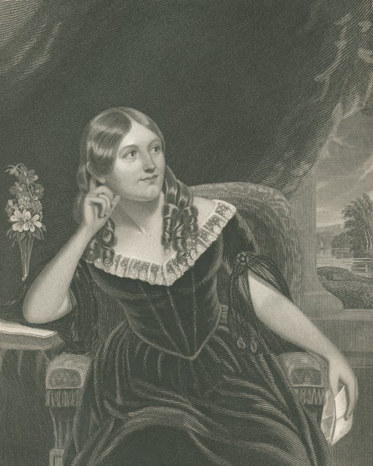 engraving of Ann S. Stephens, (1813—1886) , a novelist, poet and activist.